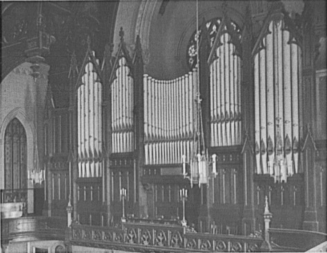 Detroit, Mich., organ at Fort St. Presbyterian Church